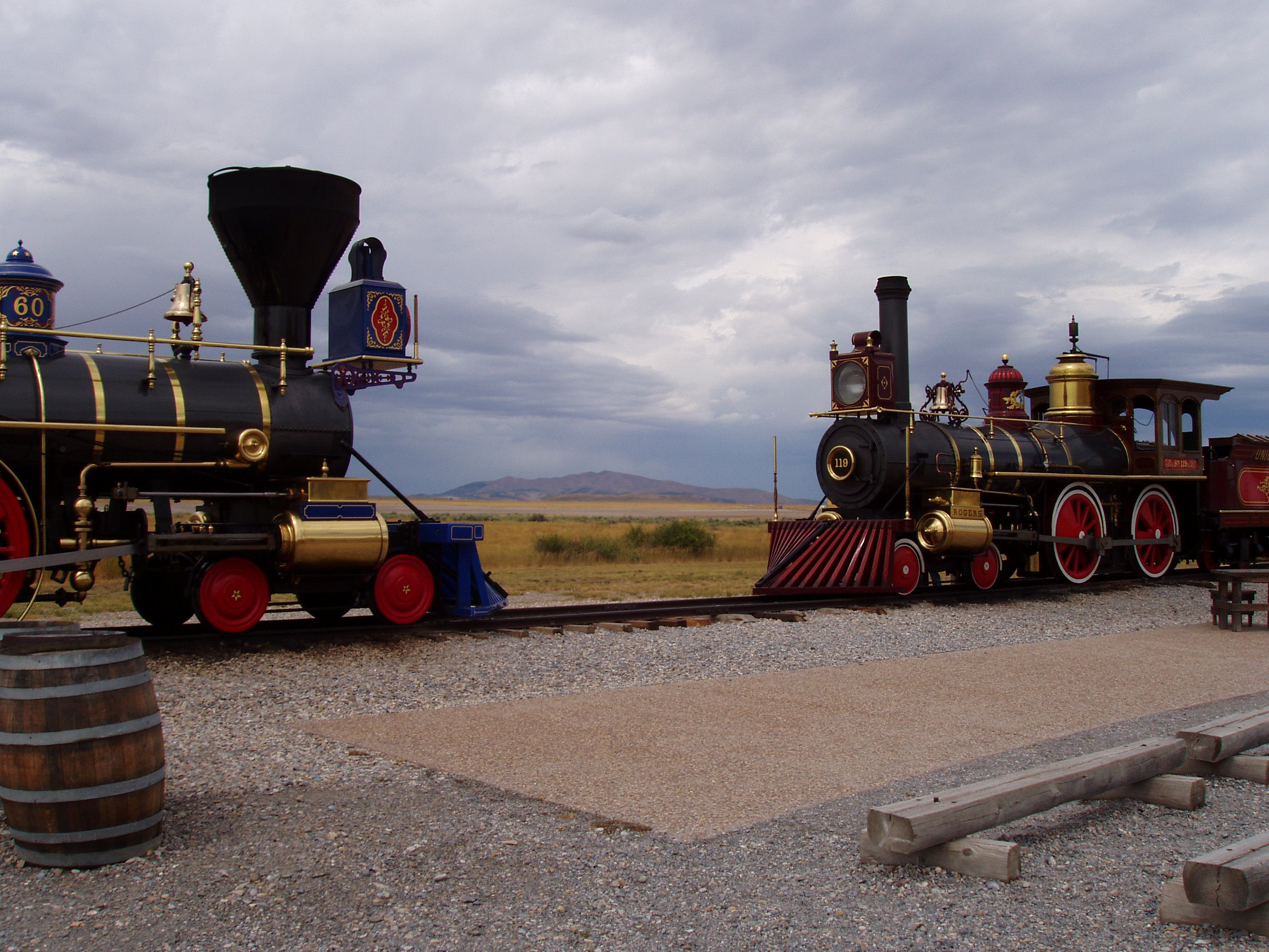 Photo taken by Hyrum K. Wright on August 18, 2005. This image was taken at the Golden Spike National Historic Site and shows the recreated No. 119 and Jupiter locomotives used to commemorate the driving of the Golden Spike to complete the continental railroad on May 10th 1869.